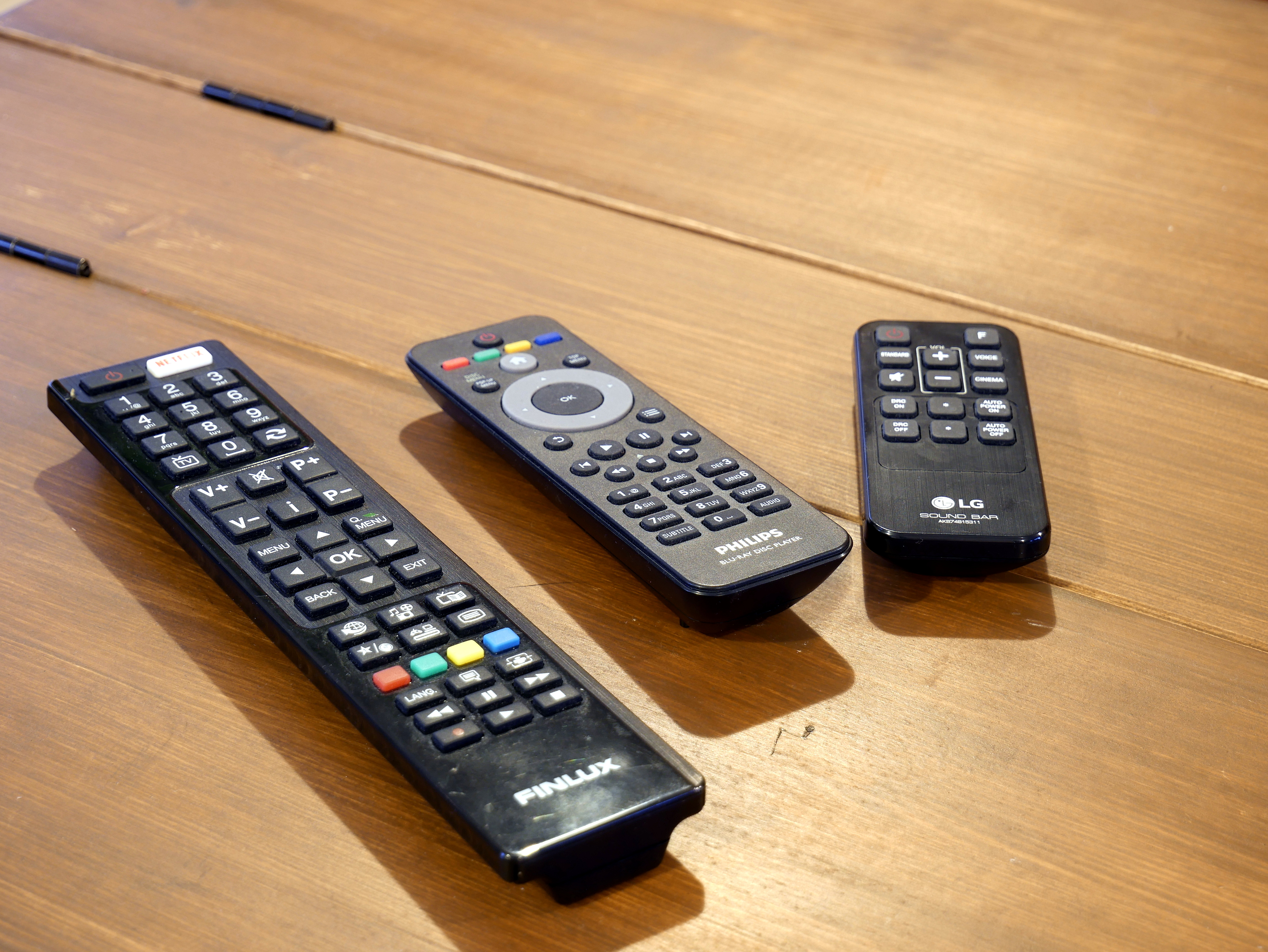 Remote controllers (TV, Blu-ray player, sound bar).